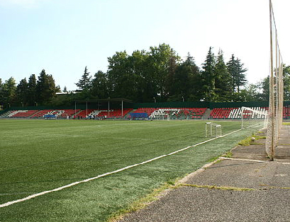 The Daur Akhvlediani Stadium in Gagra, Abkhazia